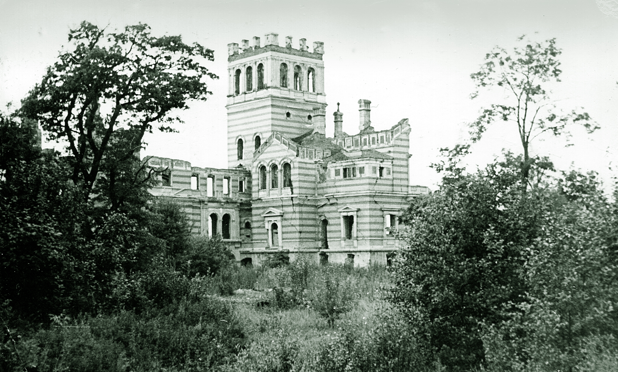 Lower Summer Residence in Alexandria park of Petergof. The birth place of Infant Alexey (1904-1918)